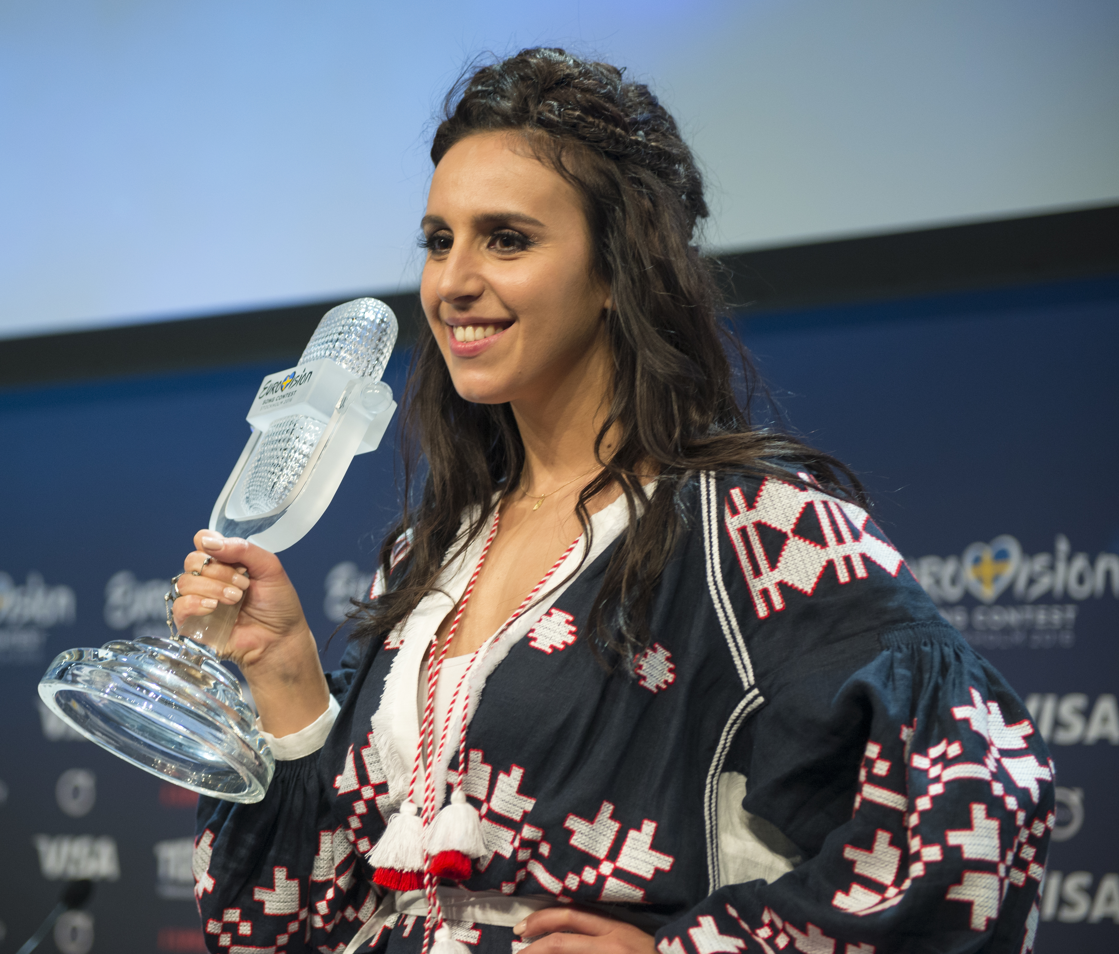 Jamala at the winners press conference, right after winning the Eurovision Song Contest 2016 in Stockholm. (Help translate this text)